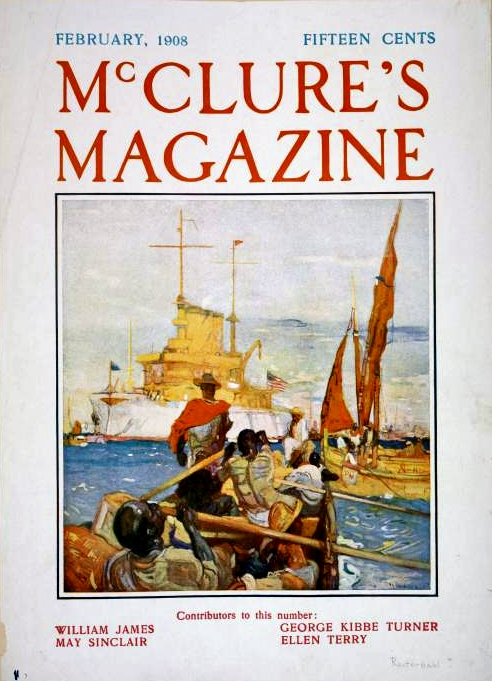 Cover to McClure's Magazine